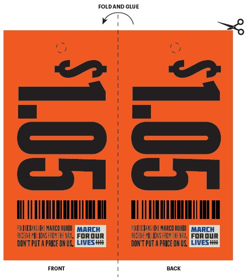 „Don’t Put a Price on Our Lives“